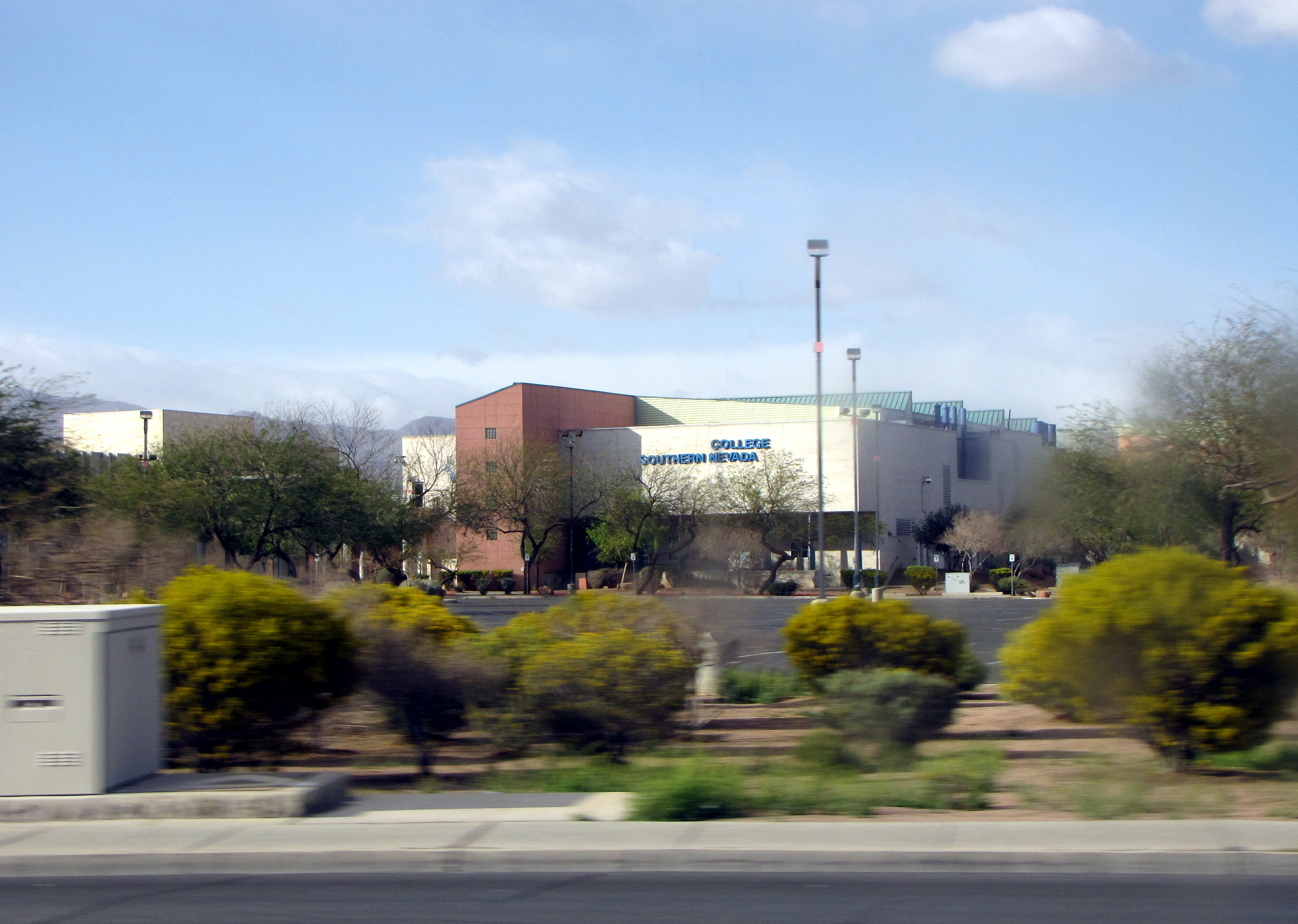 College of Southern Nevada Cheyenne campus